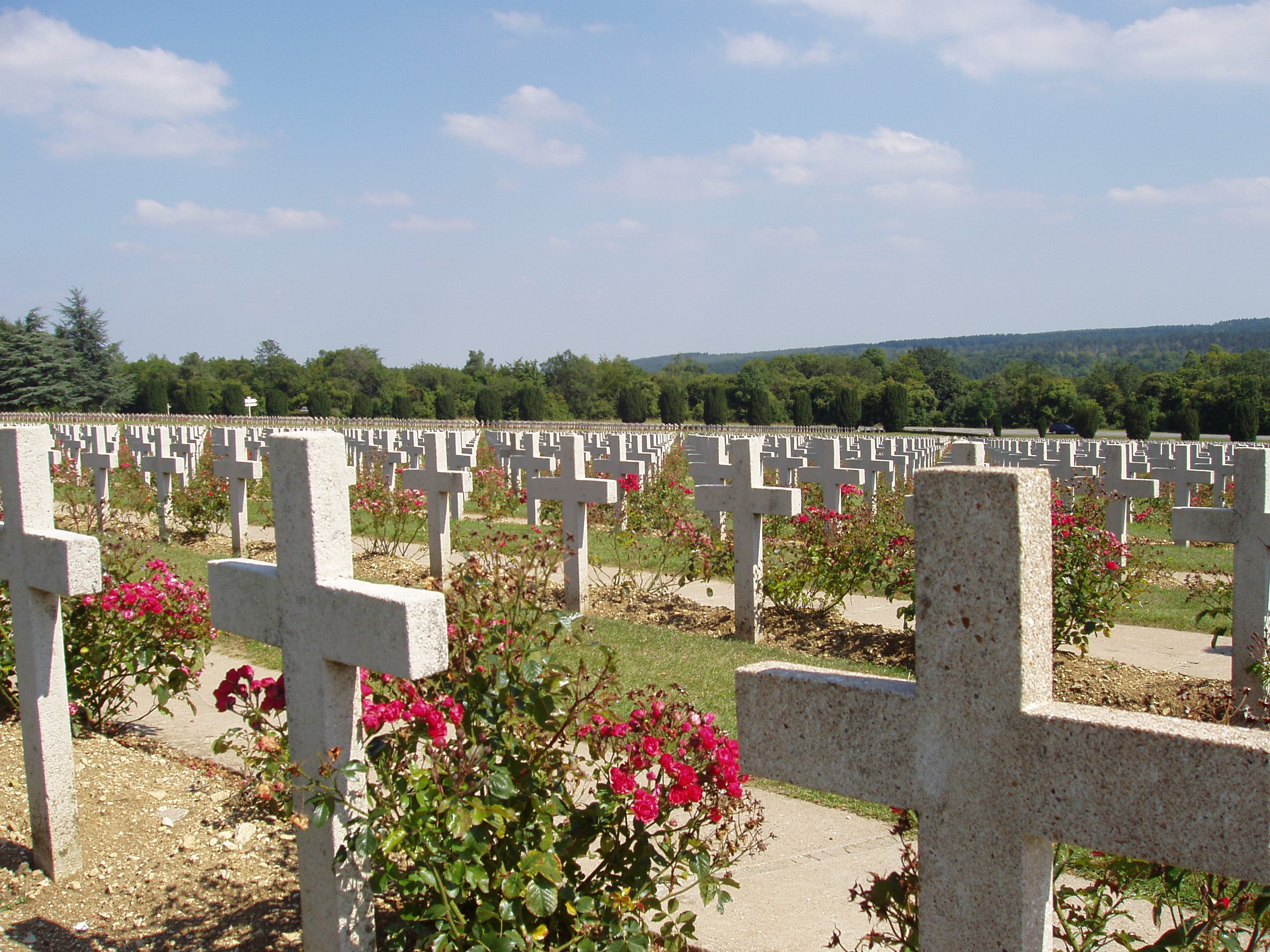 Douaumont ossuary - present time. France near Verdun